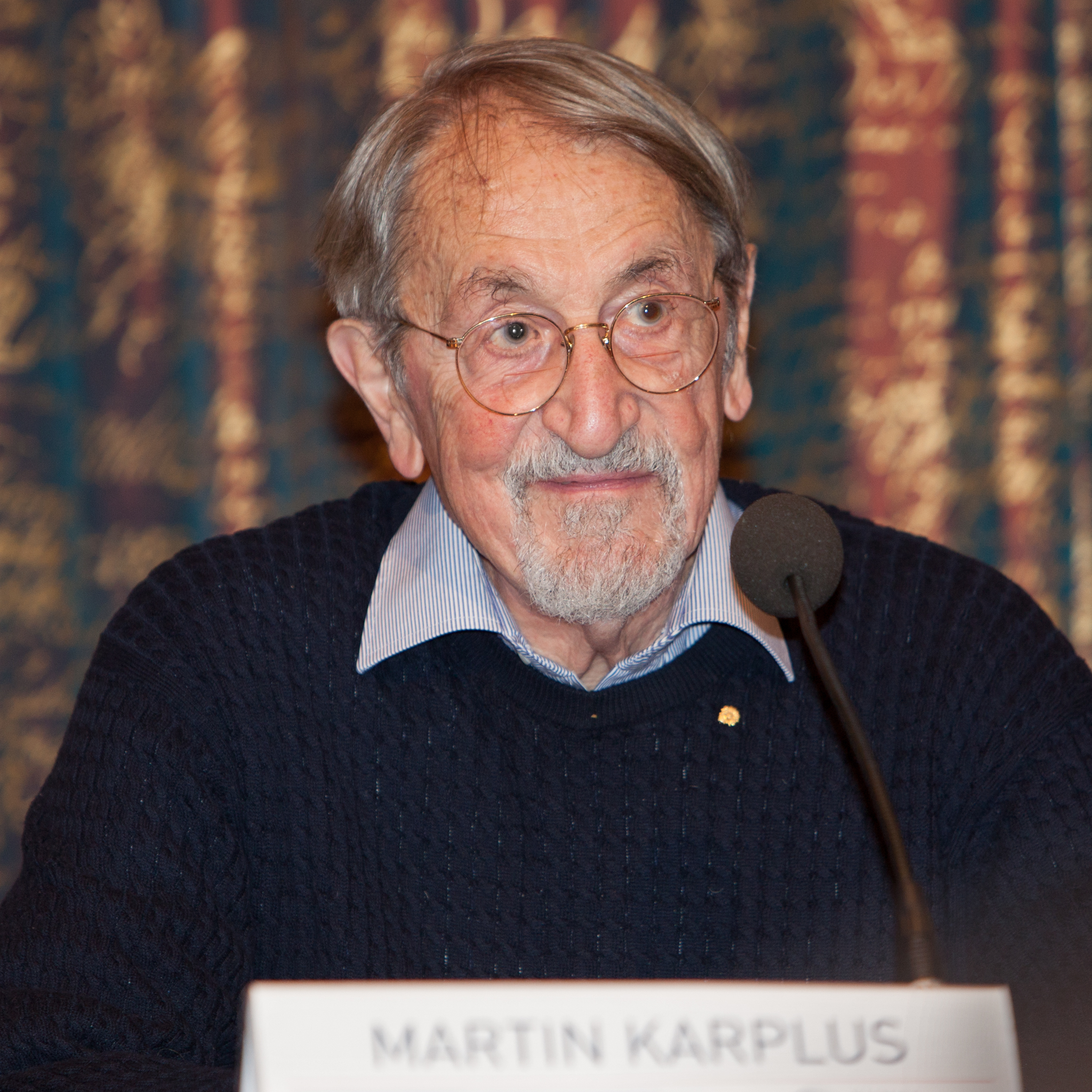 Nobel Laureates 2013 press conference at the Royal Swedish Academy of Sciences in December 2013